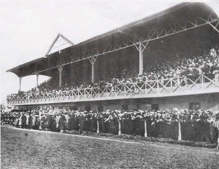 View of the official grandstands of the first Vélez Sársfield stadium, built on Guardia Nacional and Pizarro streets.